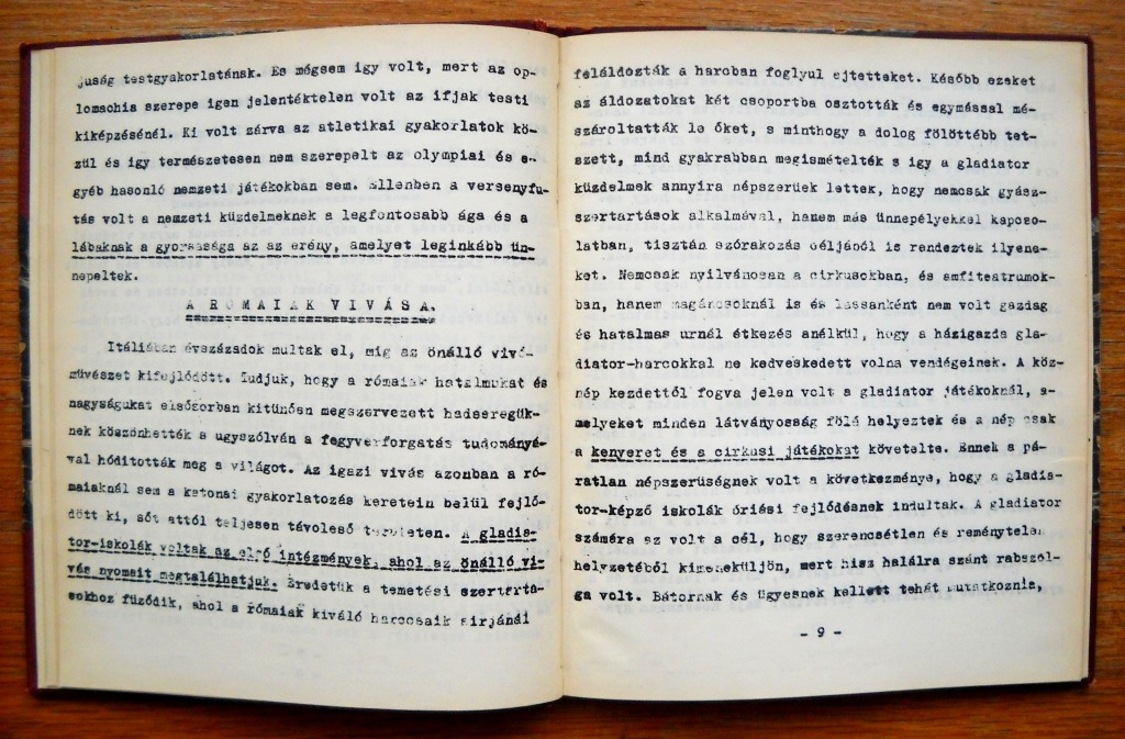 A page from László Gerentsér's book A Brief History of Fencing; L. Gerentsér (1873-1942), Hungarian fencing master, writer